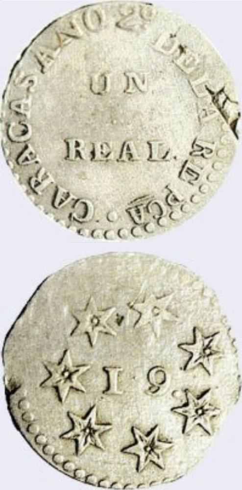 Coin of one Real in silver, minted in Caracas — Avers : Un Real / CARACAS CASANO 2d. DE LA REP[PUBLI]CA — Reverse : 19. [and seven stars].